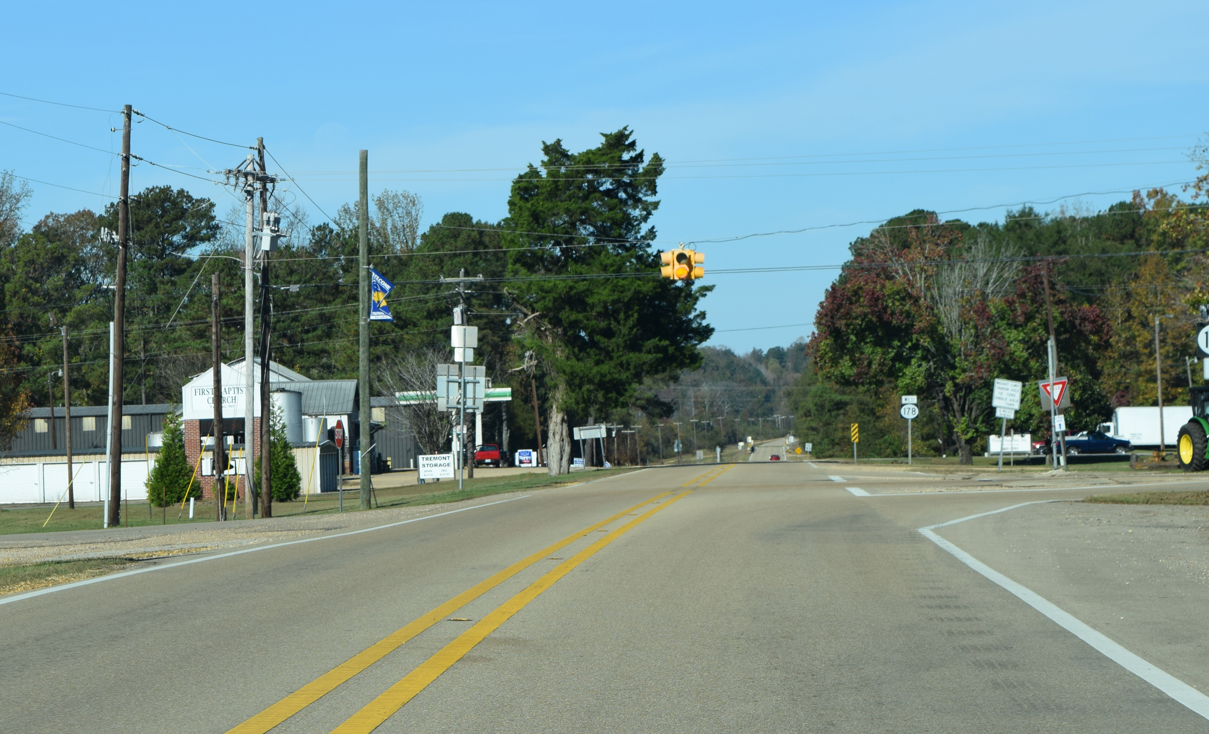 Looking west on Mississippi Highway 178 at its intersection with Mississippi Highway 23 in Tremont, Mississippi.